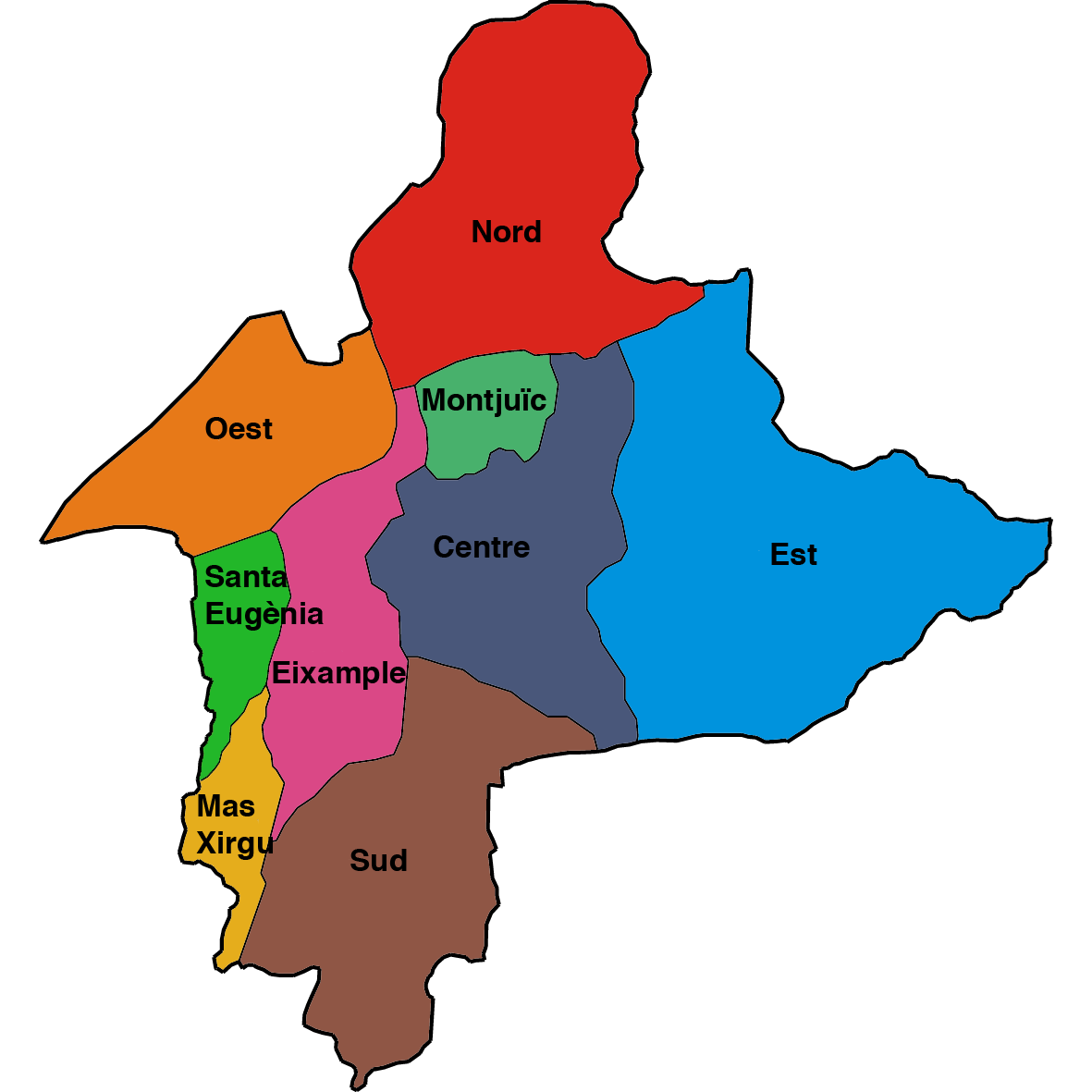 Map of Girona's districts